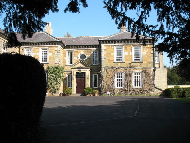 Sutton Hall, Sutton-under-Whitestonecliffe, built in the 17th century and now a time-share holiday residence